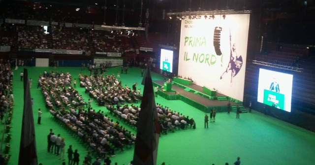 Speech of Roberto Maroni during Lega Nord federal congress.